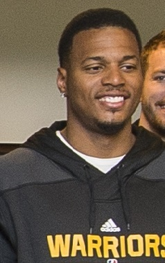 Brandon Rush visits the US Department of Defense in 2015.